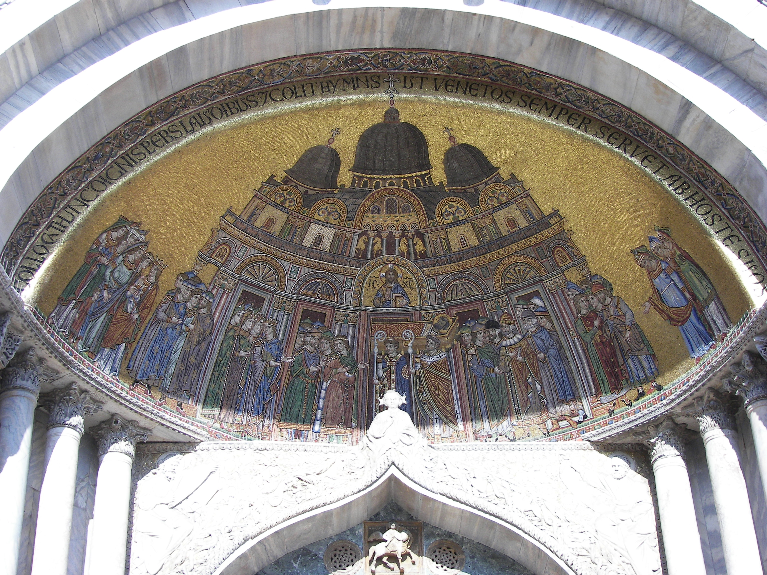 Mosaic over facade doors of the Basilica di San Marco in Venezia.